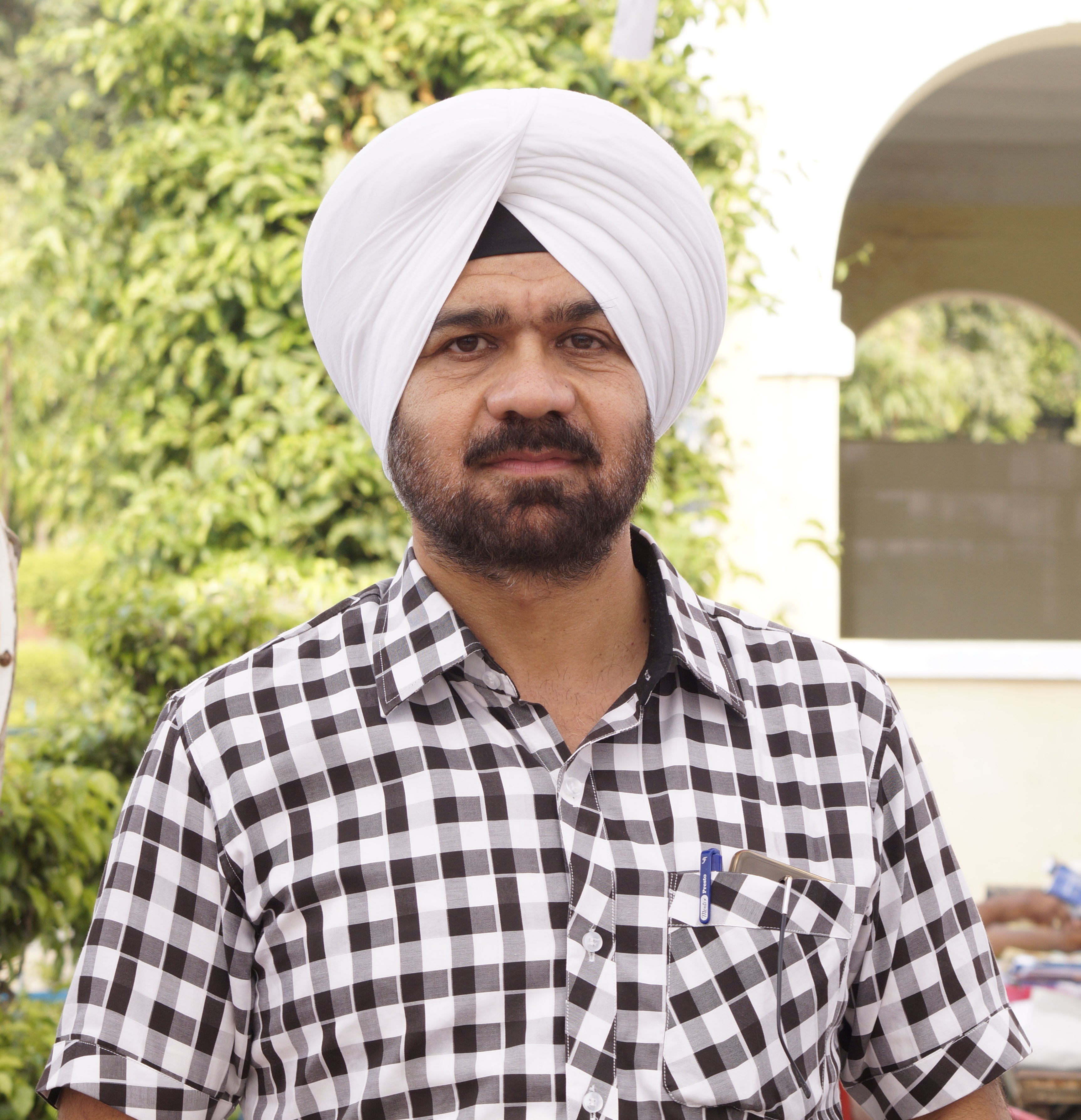 Nirmal Jaura